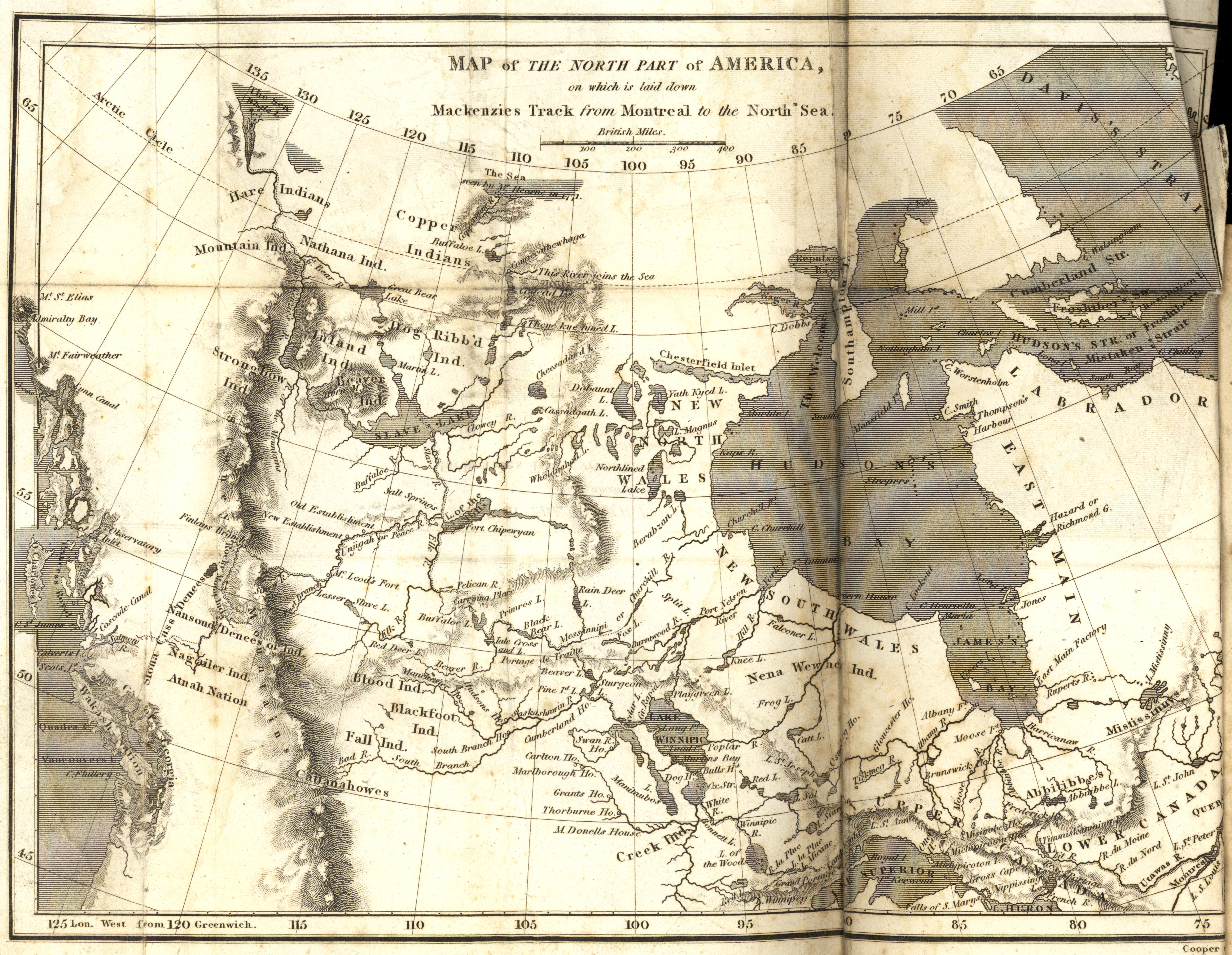 Mackenzie, Alexander. Map of the North Part of America on which is laid down Mackenzies Track (dotted line) from Montreal to the North Sea [map] Scale not given. In: A Collection of Voyages and Travels, from the Discovery of America to the Commencement of the Nineteenth Century (Volume 24). London: 1809. Image Courtesy of University of Manitoba Archives & Special Collections